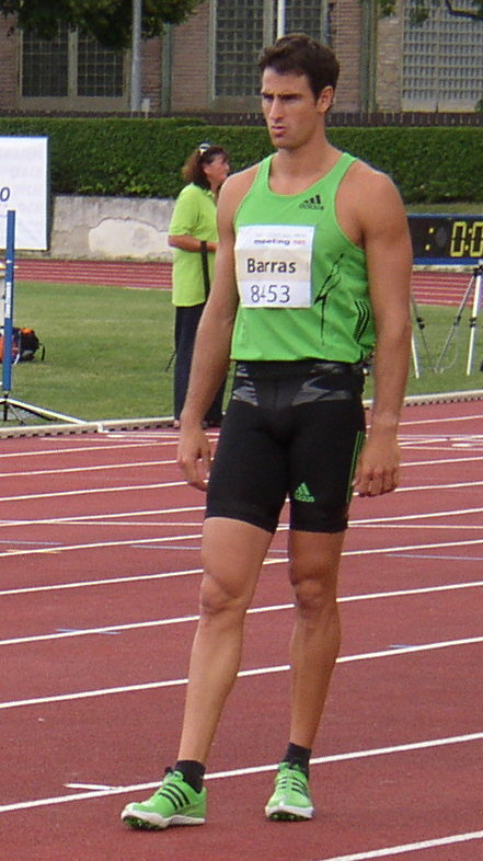 Athlete Romain Barras of France preparing for his attempt in long jump during men's decathlon at 5th edition of the TNT - Fortuna Meeting (IAAF World Combined Events Challenge Meeting, Sletiště Stadium, Kladno, Czech Republic, 15 June 2011, 13:06).